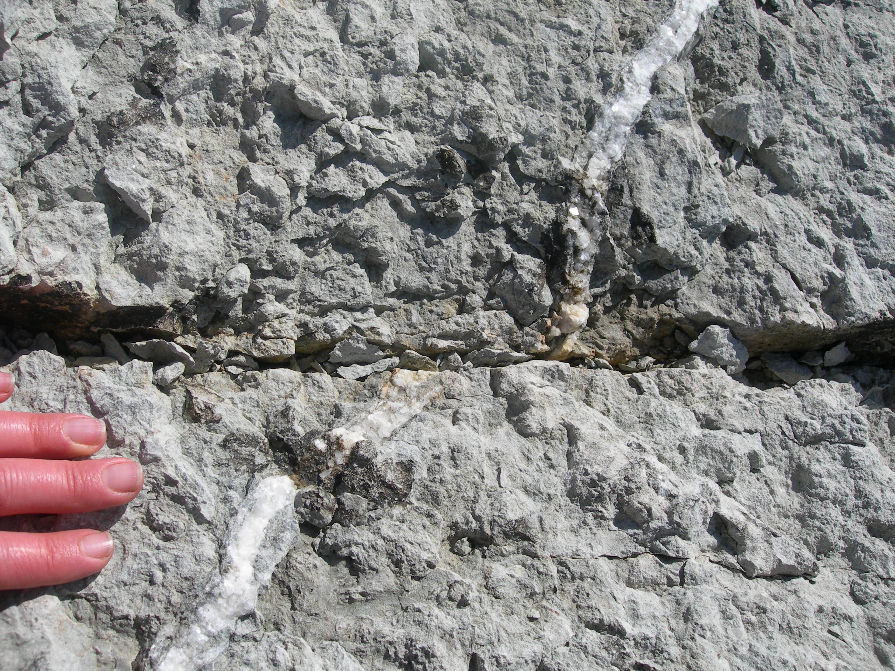 A right-lateral fracture in Ordovician limestone cuts an older joint filled with crystallized calcite, NW shore of Osmussaar island, Estonia.